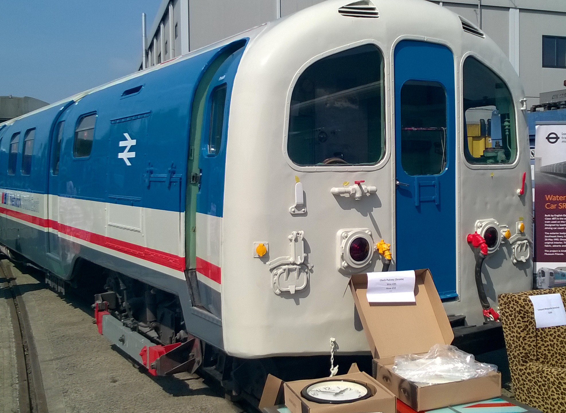 British Rail Class 487 at London Transport Museum Depot